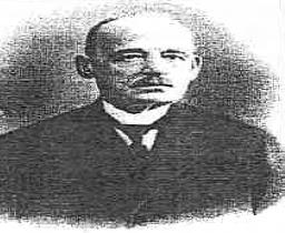 Romanian lawyer Ioachim Fulea, deputy in the Great National Assembly from Alba Iulia - Romania, 1918Română: Ioachim Fulea, avocat și deputat în Marea Adunare Națională de la Alba Iulia, 1918